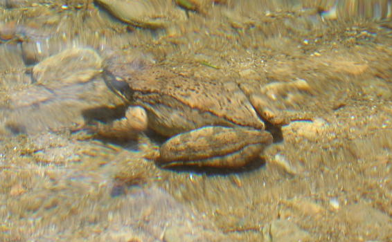 Frog in the water